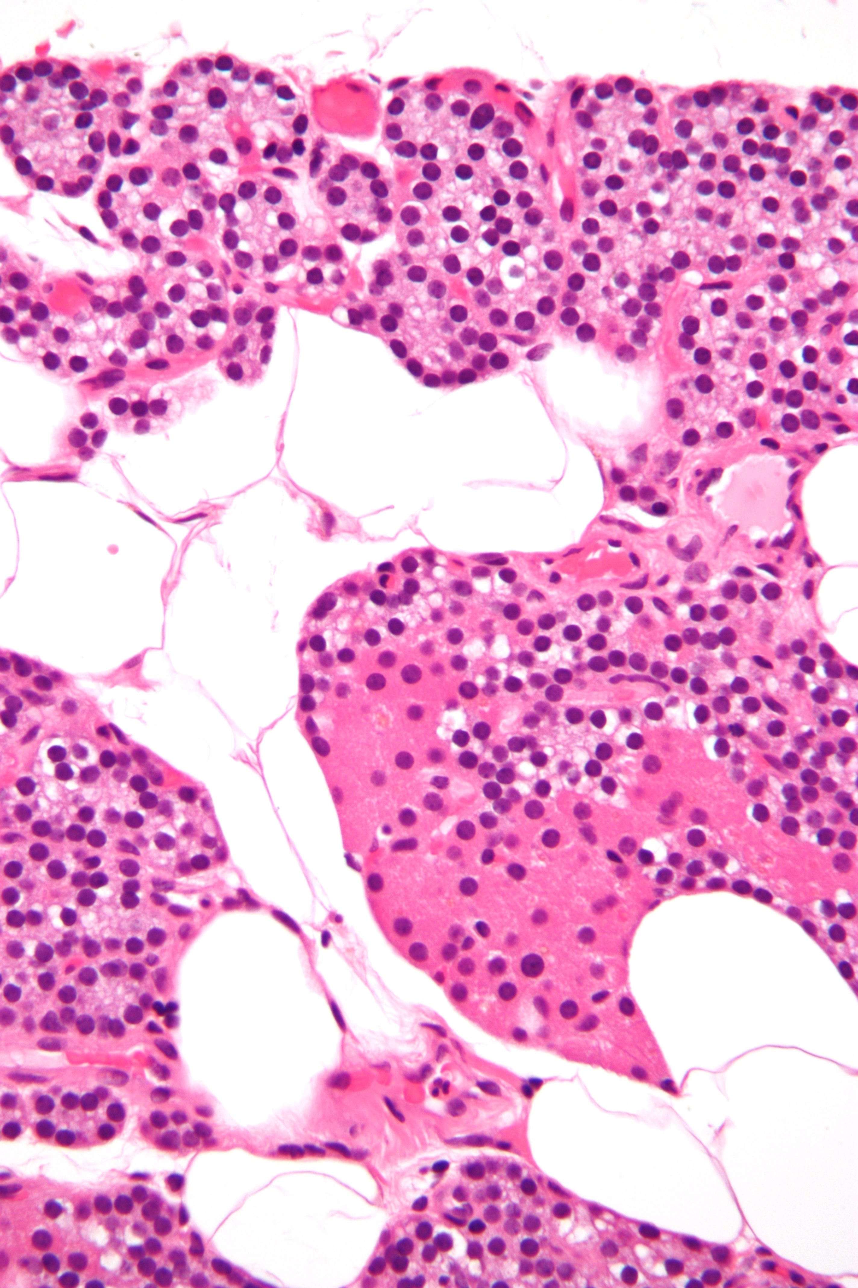 High magnification micrograph of the parathyroid gland. H&E stain. Excised surgically for parathyroid adenoma - not seen on image. Cells of the parathyroid: Parathyroid chief cells - intense hyperchromatic to eosinophilic cytoplasmic staining (see notes), abundant in number, moderate amount of cytoplasm, function - manufacture PTH. Oxyphil cells - moderate/light hyperchromatic to eosinophilic, rare, abundant amount of cytoplasm, function - not known. Adipocytes - seen in older people, increases with age. Notes: Cytoplasmic staining varies considerably on H&E preparations - it may vary from hyperchromatic to clear to eosinophilic. Chief cells tend to stain more intensely than oxyphil cells. Related images Parathyroid gland Low mag. Intermed. mag. High mag. High mag. (cropped) High mag. (cropped) Parathyroid adenoma Low mag. Intermed. mag. High mag.